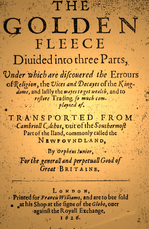 Title page of The Golden Fleece by William Vaughan (1577-1641).